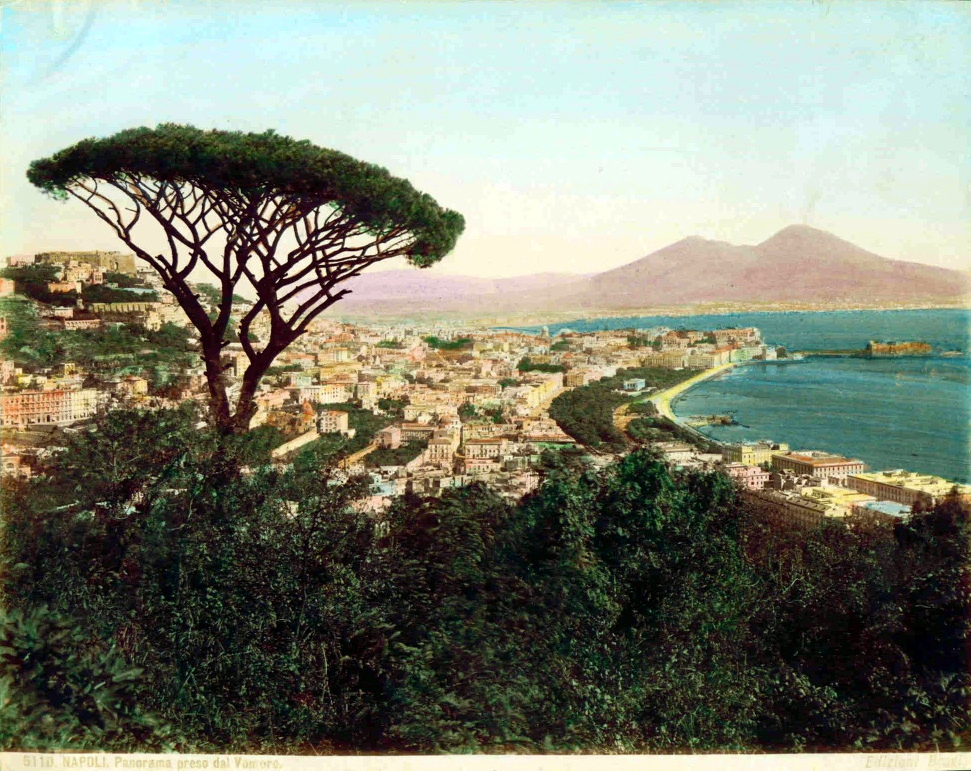 Giacomo Brogi (1822-1881) - "Napoli - View taken from Via Minucio Felice - traversa di Via Orazio" (hand-tinted). Catalogue # 5110.